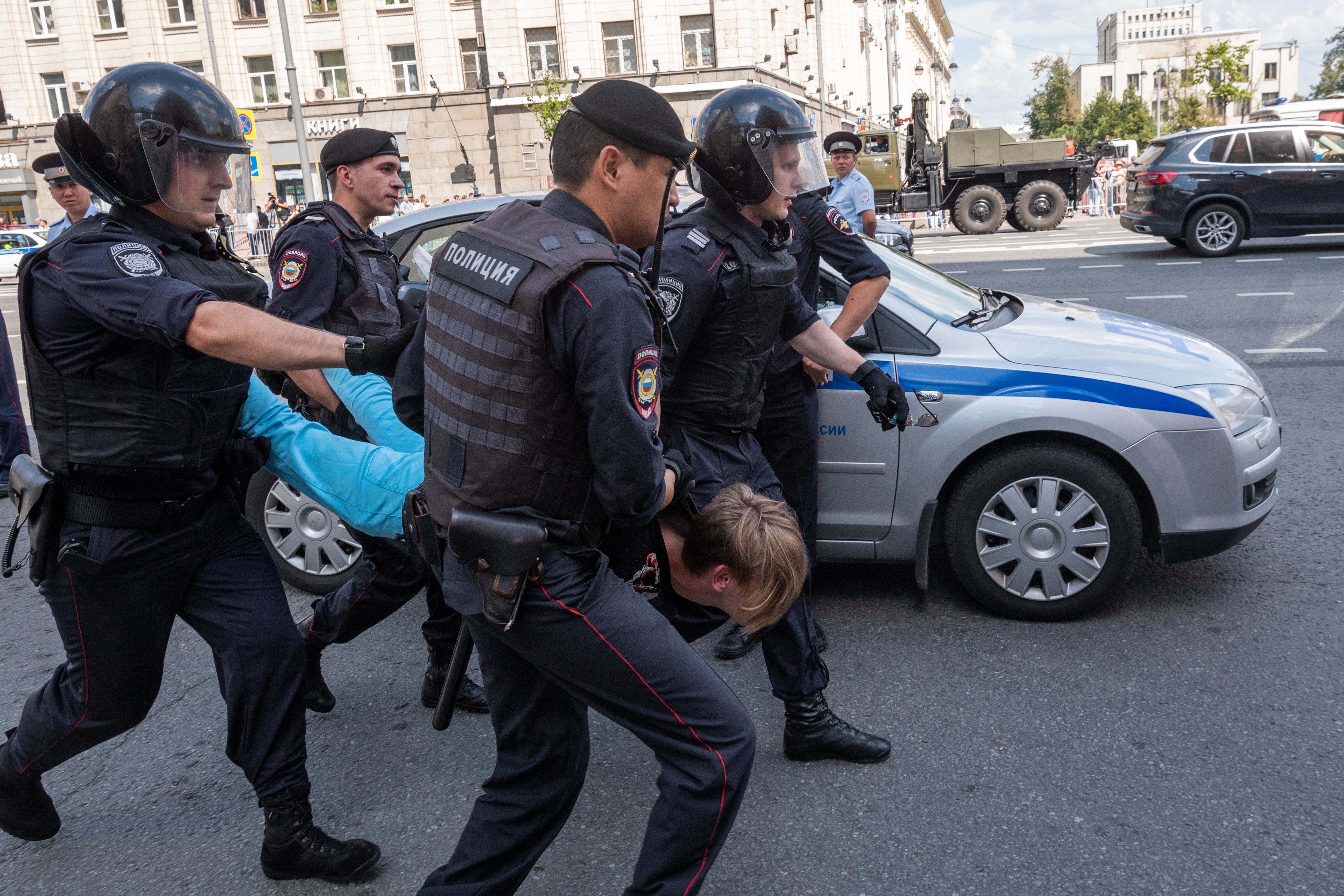 Rally in support of opposition candidates for deputies of the Moscow City Duma.